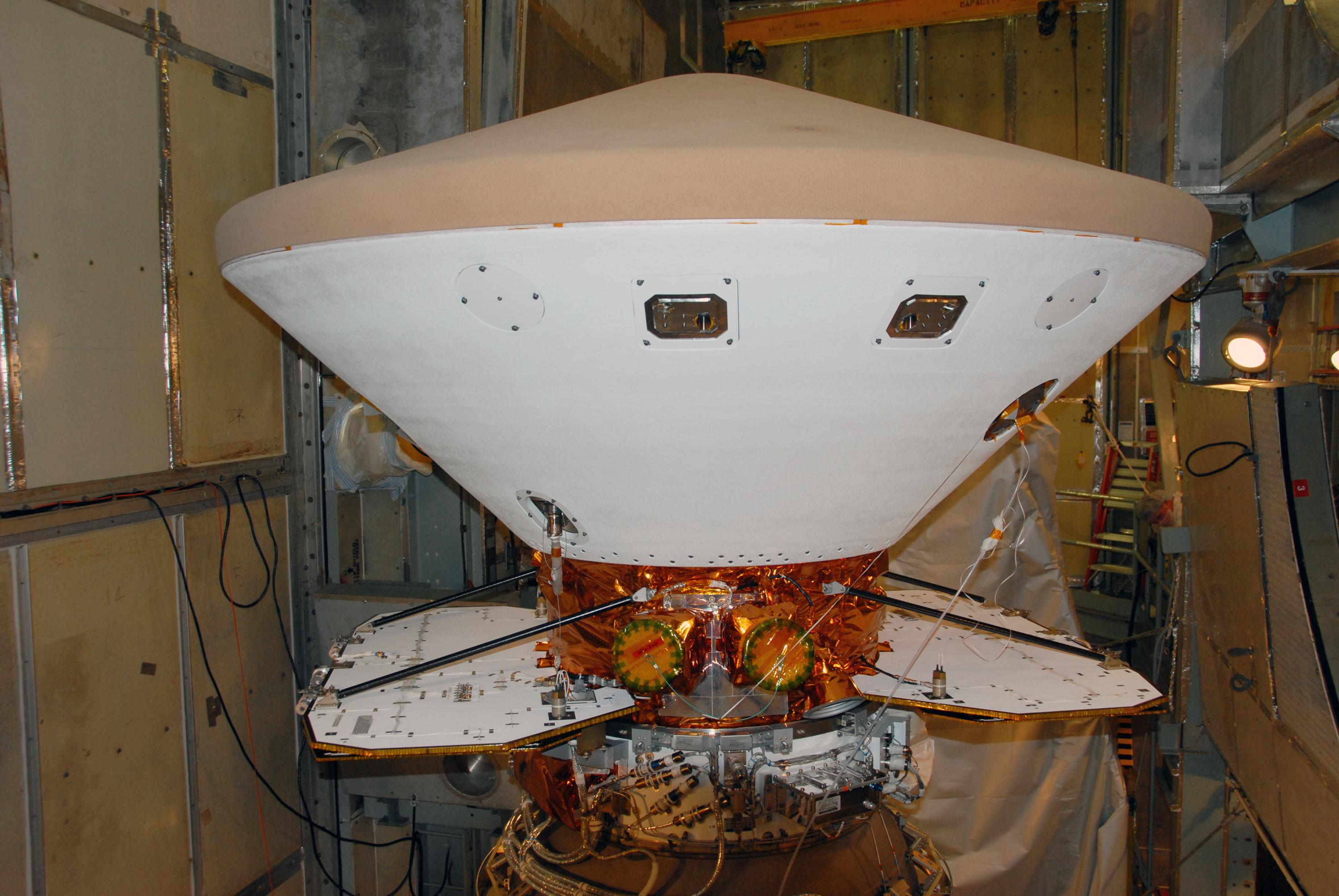 On Launch Pad 17-A at Cape Canaveral Air Force Station, the Phoenix Mars Lander waits for the fairing installation. Phoenix is targeted for launch on Aug. 3 aboard a Delta II rocket. The fairing is a molded structure that fits flush with the outside surface of the Delta II upper stage booster and forms an aerodynamically smooth nose cone, protecting the spacecraft during launch and ascent. Phoenix will land in icy soils near the north polar, permanent ice cap of Mars and explore the history of the water in these soils and any associated rocks, while monitoring polar climate. Landing on Mars is planned in May 2008 on arctic ground where a mission currently in orbit, Mars Odyssey, has detected high concentrations of ice just beneath the top layer of soil.